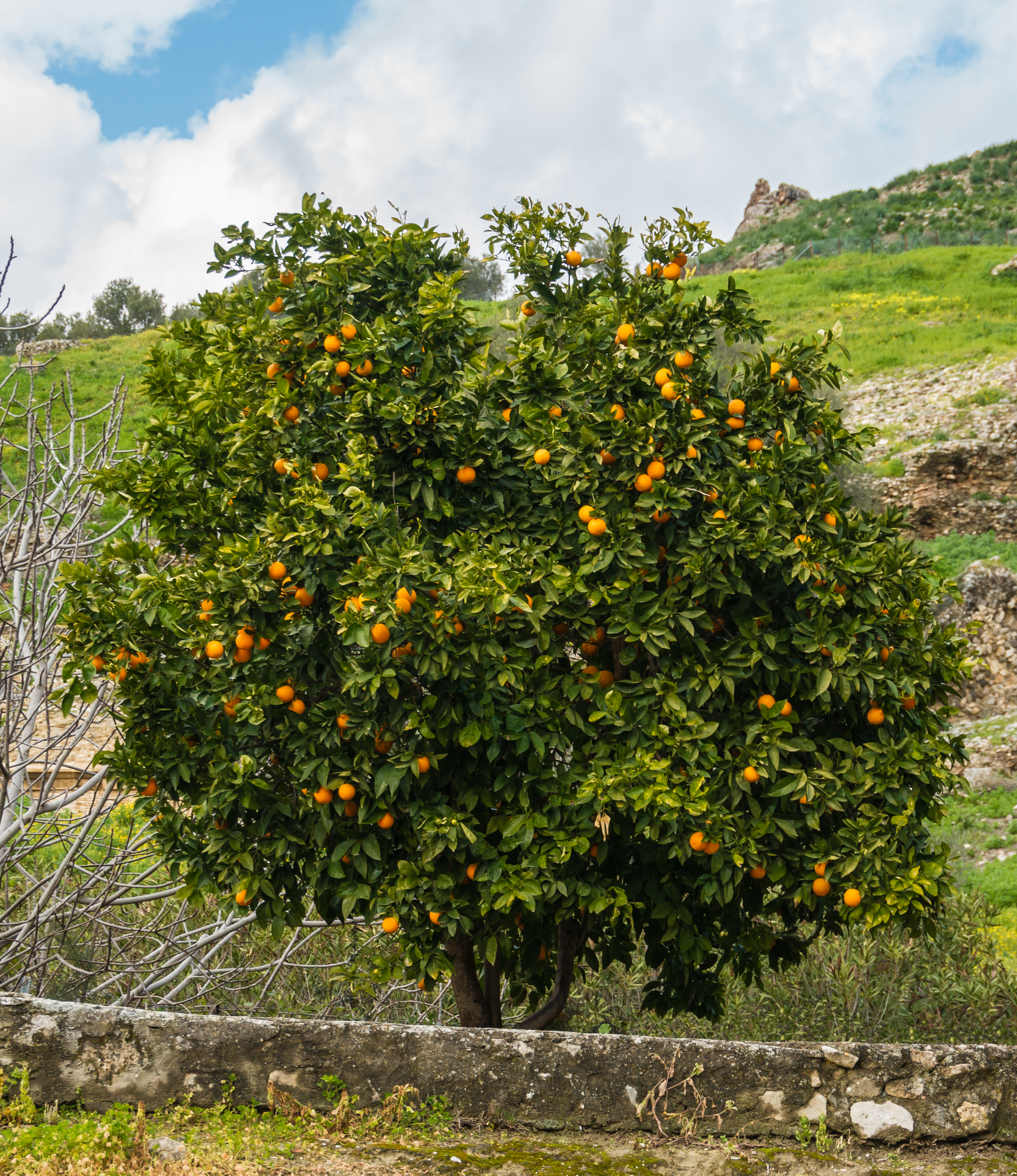 Mandarine tree with fruits (Citrus reticulata), in Gortys, Crete, Greece.